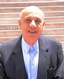 Abd elmehsen alqattan